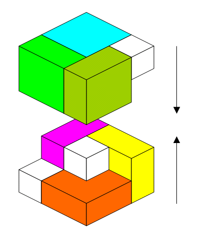 It describes the solutuion of Slothouber–Graatsma puzzle